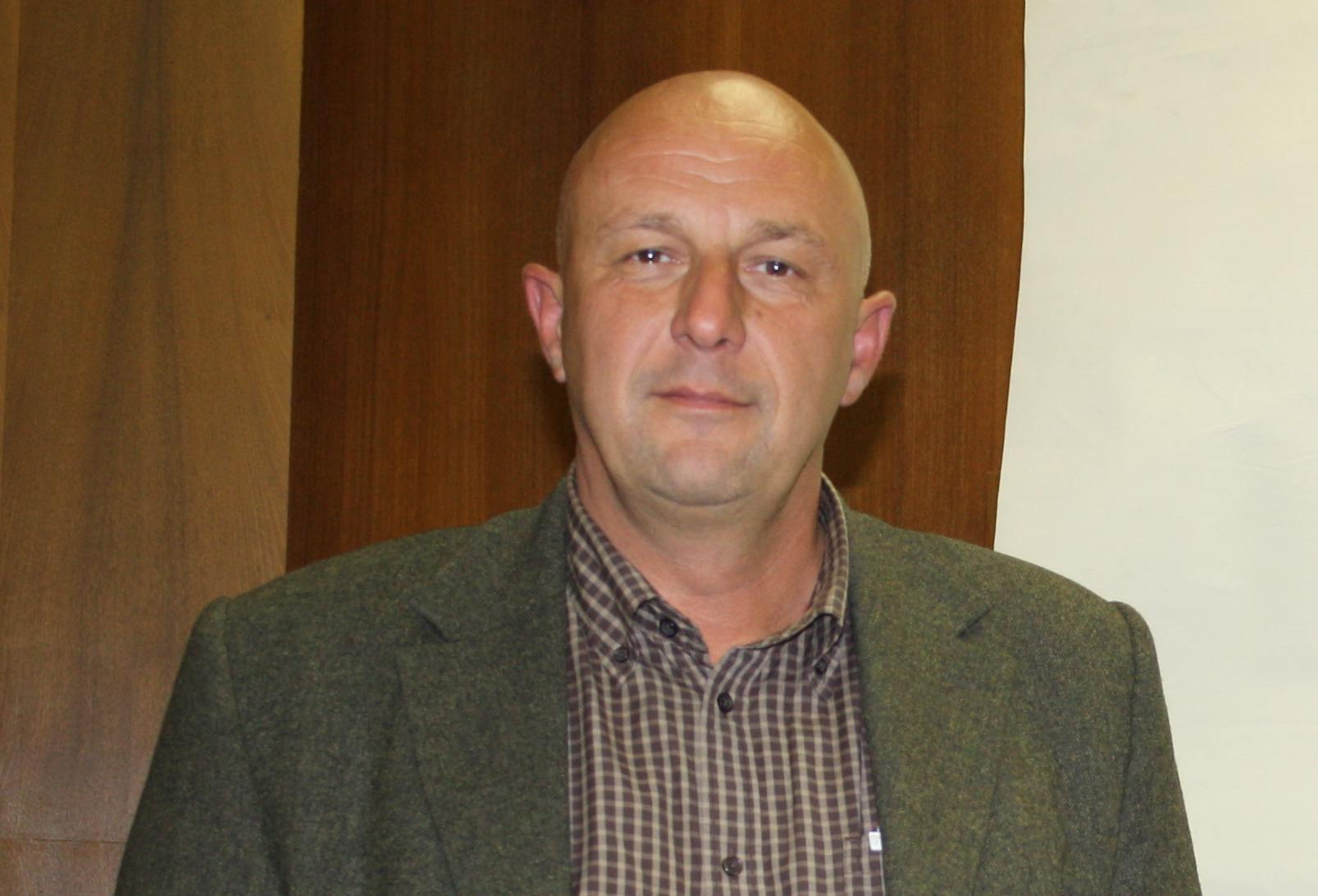 Tomáš Julínek portrait cropped.